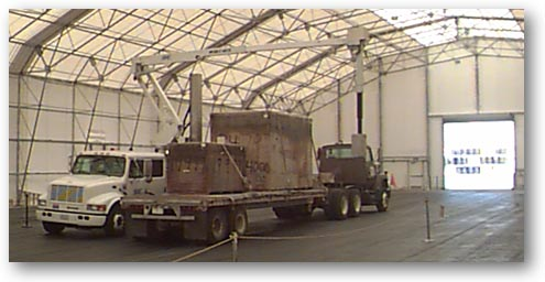 Mobile VACIS system taking gamma-ray image of a truck. See manufacturer at for hardware details.